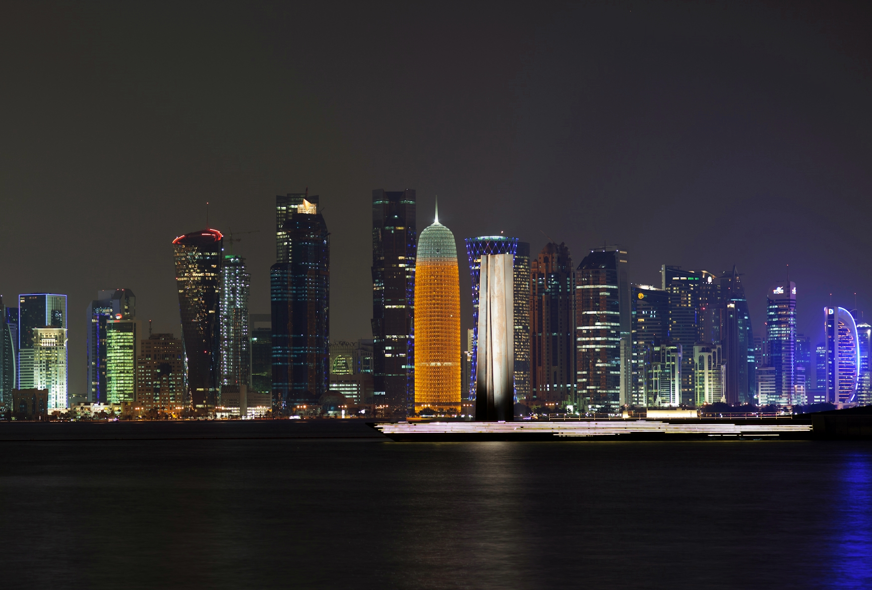 Doha, Qatar.